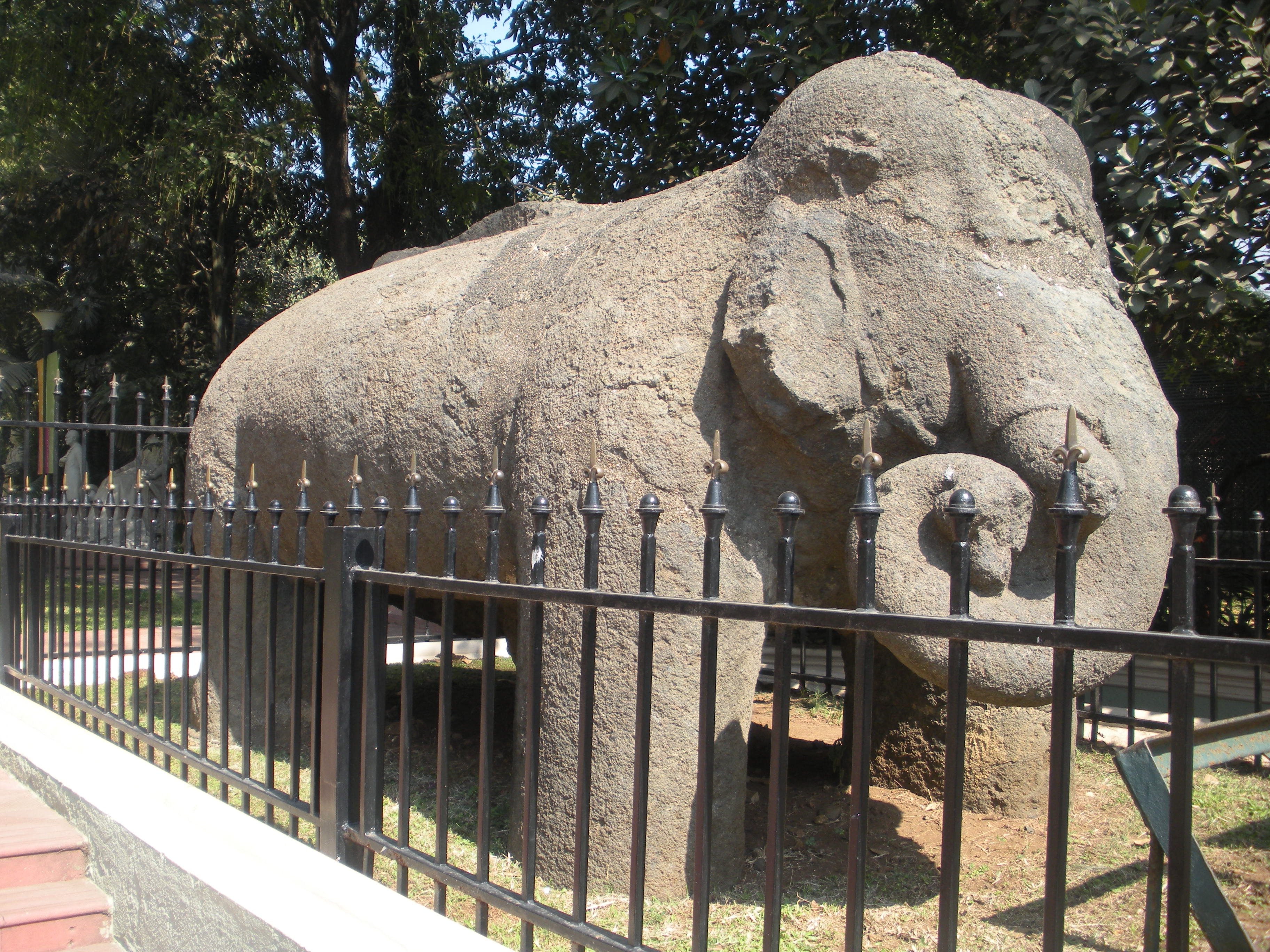 The Statue of elephant once stood at Rajabunder Jetty of Elephanta island. Now placed in Jijamata Udyan, Byculla, Mumbai